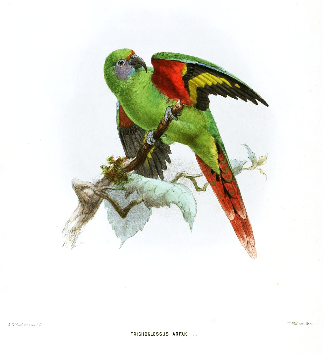 Trichoglossus arfaki = Oreopsittacus arfaki